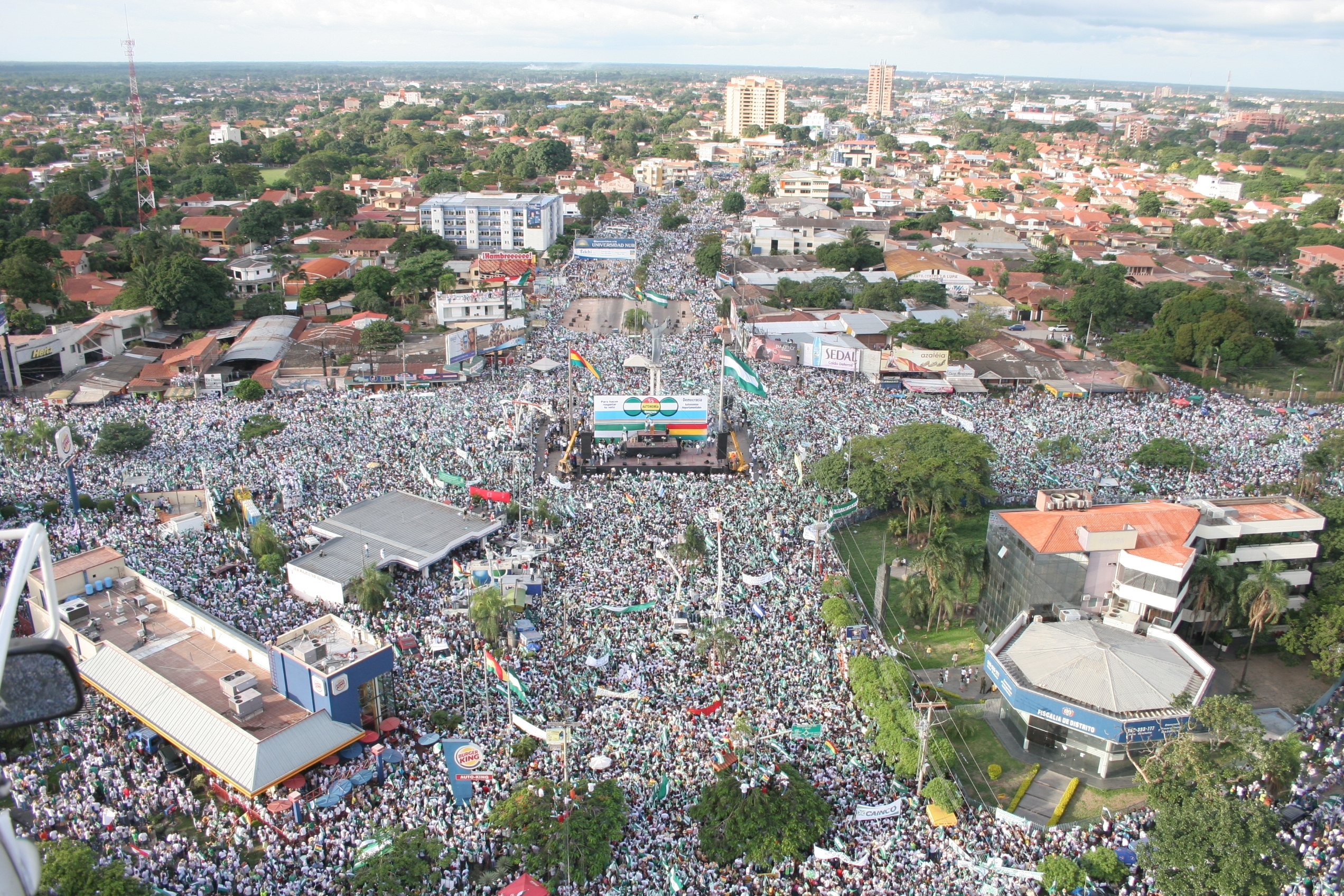 photography took during the massive concentration at Santa Cruz, Bolivia's Cabildo del Millon, where we can see the people gathering at the foot of "El Cristo Redentor" in Santa Cruz